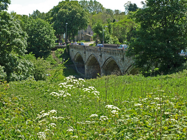 View towards Mercury Bridge. This bridge crosses the River Swale, with converted station in the background. Taken from the short piece of road between Lombard St. and Station Rd. Richmond.